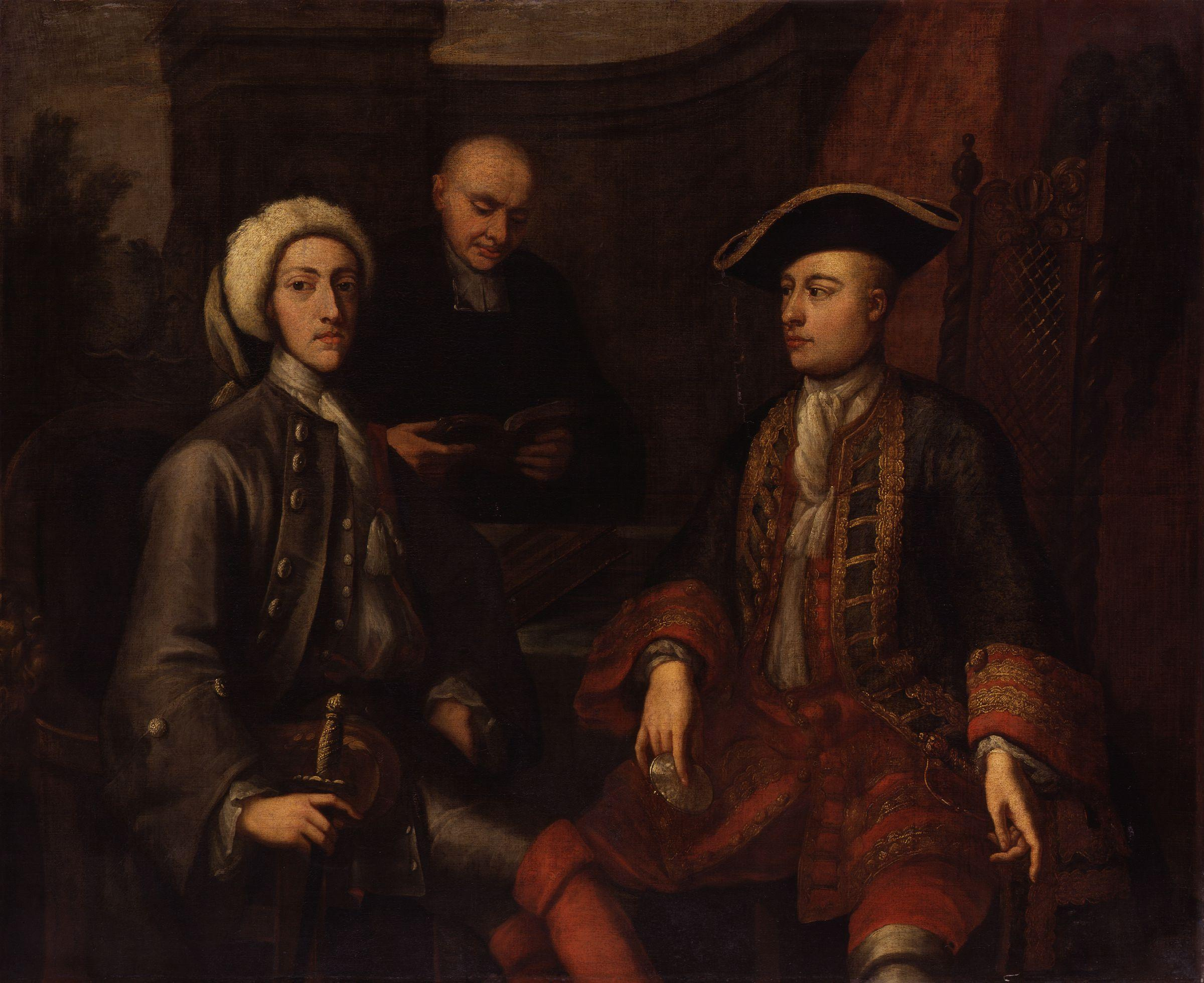 John Montagu, 2nd Duke of Montagu, James O'Hara, 2nd Baron Tyrawley, and an unknown man, by John Verelst (floruit 1697-1734)